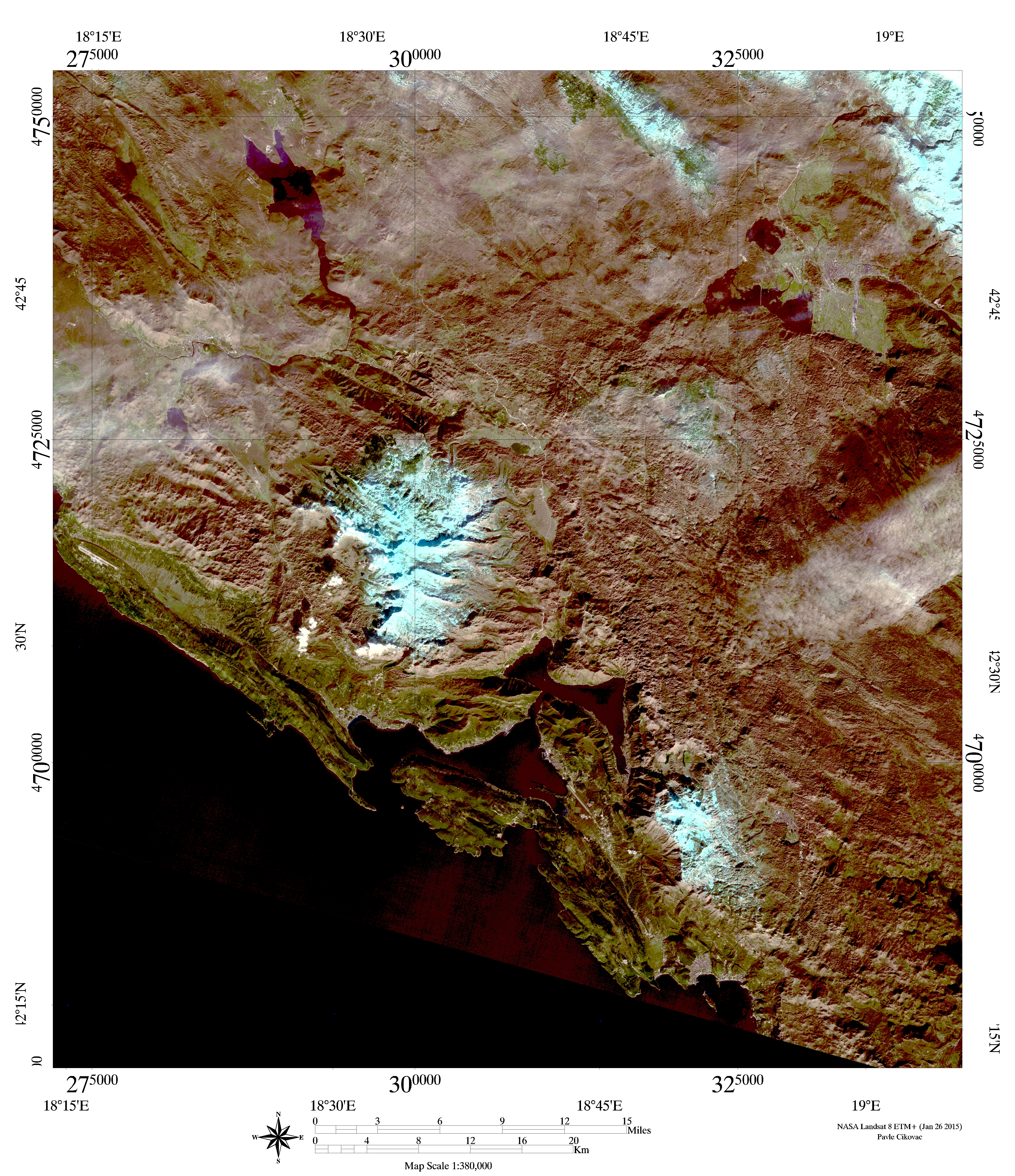 Katunska Nahija old Montenegro tribes region of Cuce, Bay of Kotor, Orjen